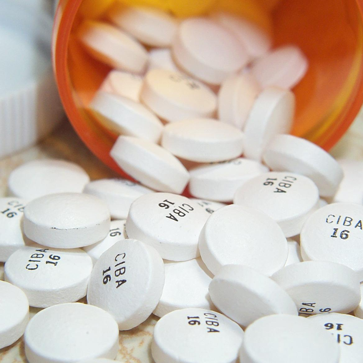 Ritalin SR 20 mg, a brand-name sustained-release formulation of methylphenidate